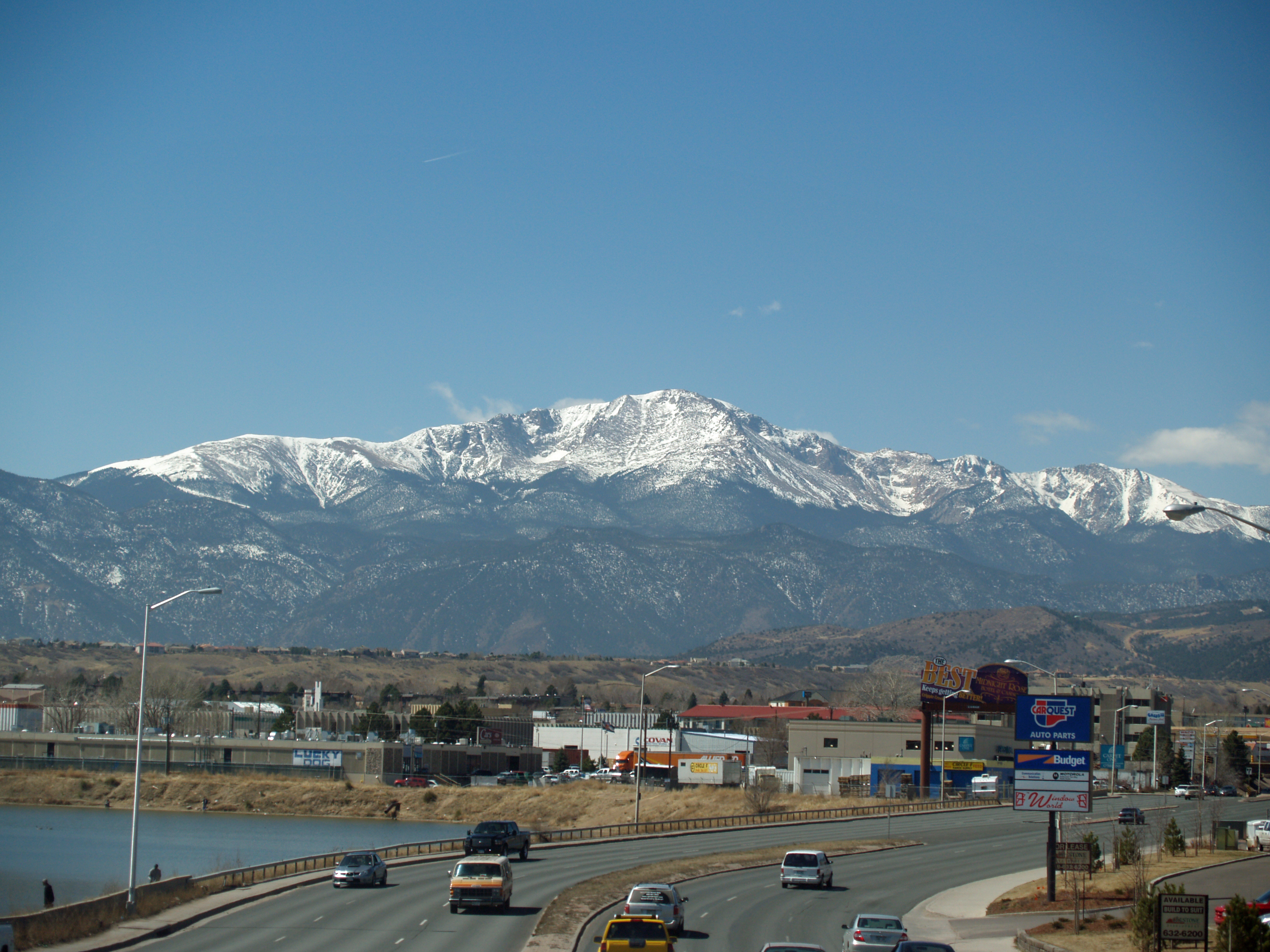 Pikes Peak seen from Colorado Springs. The approximate location is Garden of the Gods road and Nevada Avenue, just west of UCCS.